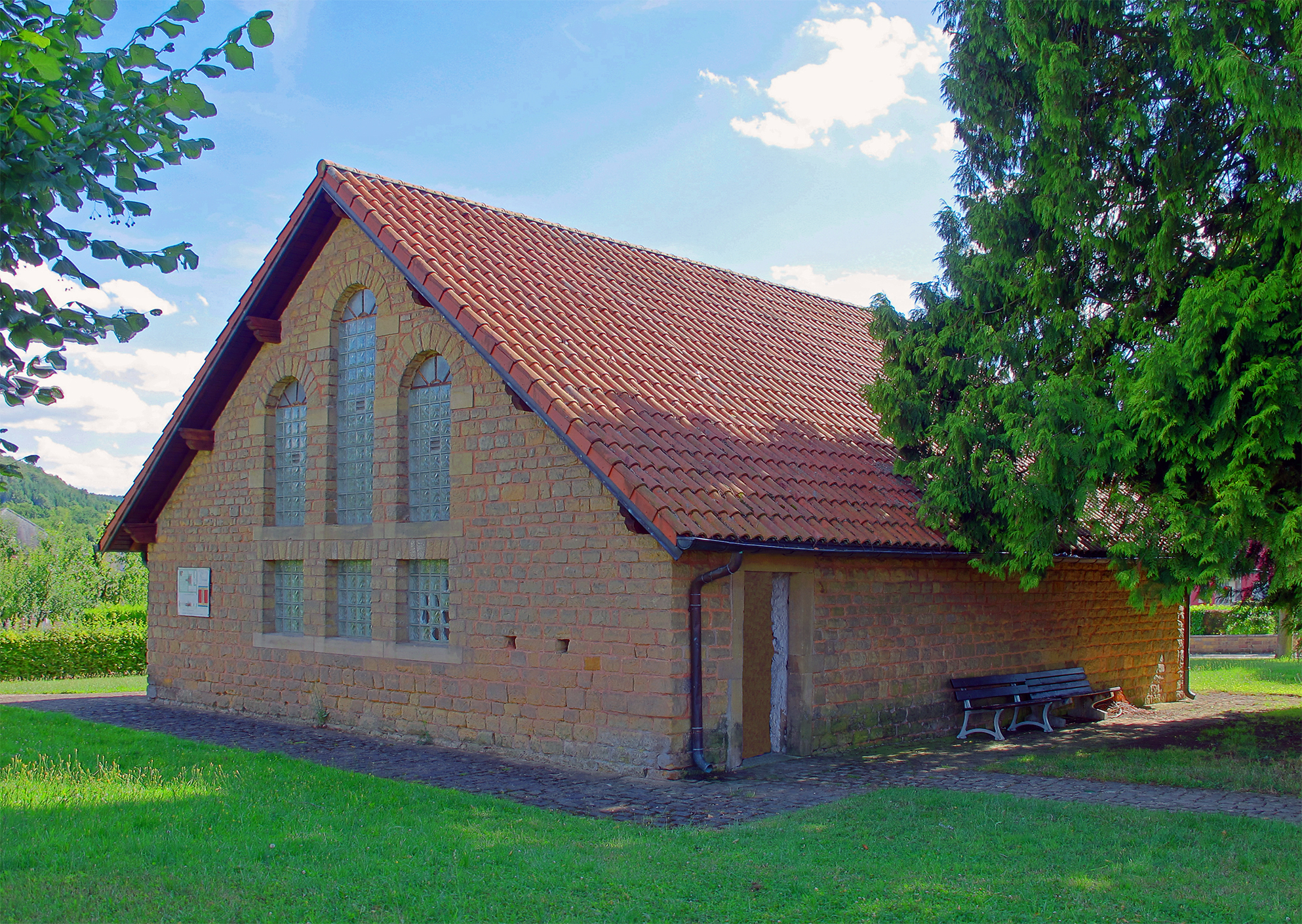 Building to protect the archaeological excavation of a roman villa in Mersch, Luxembourg